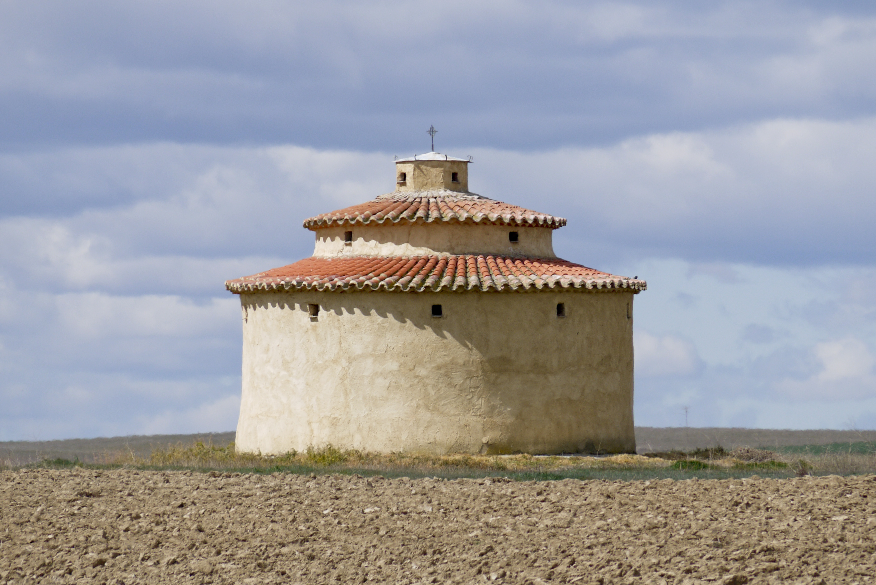 Dovecote in Villafáfila, Castile and Léon, Spain